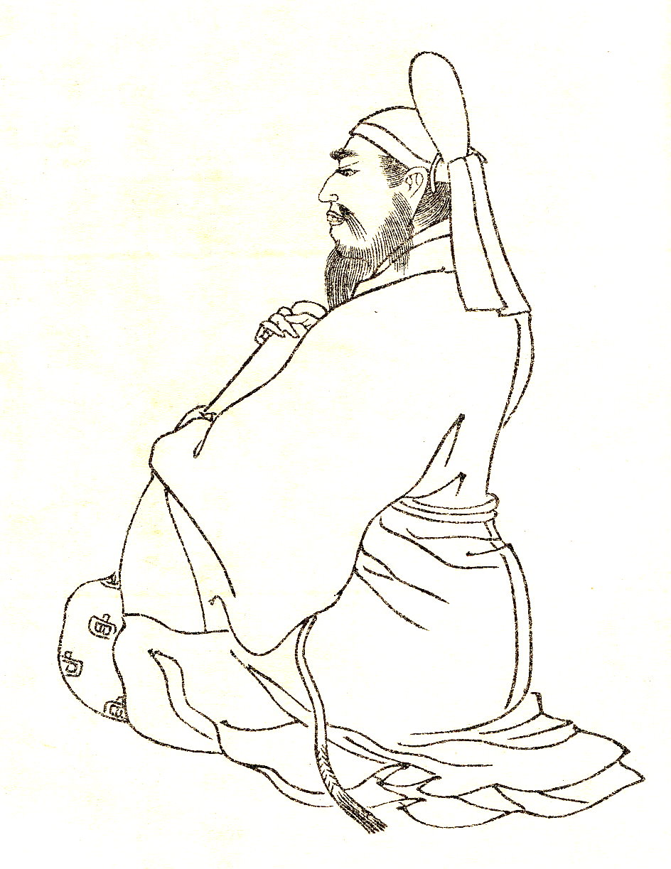 Isonokami no Maro（石上麻呂）was a powerful member of the imperial court of Japan during the Asuka and Nara periods. This picture was drawn by Kikuchi Yosai（菊池容斎） who was a painter in Japan.